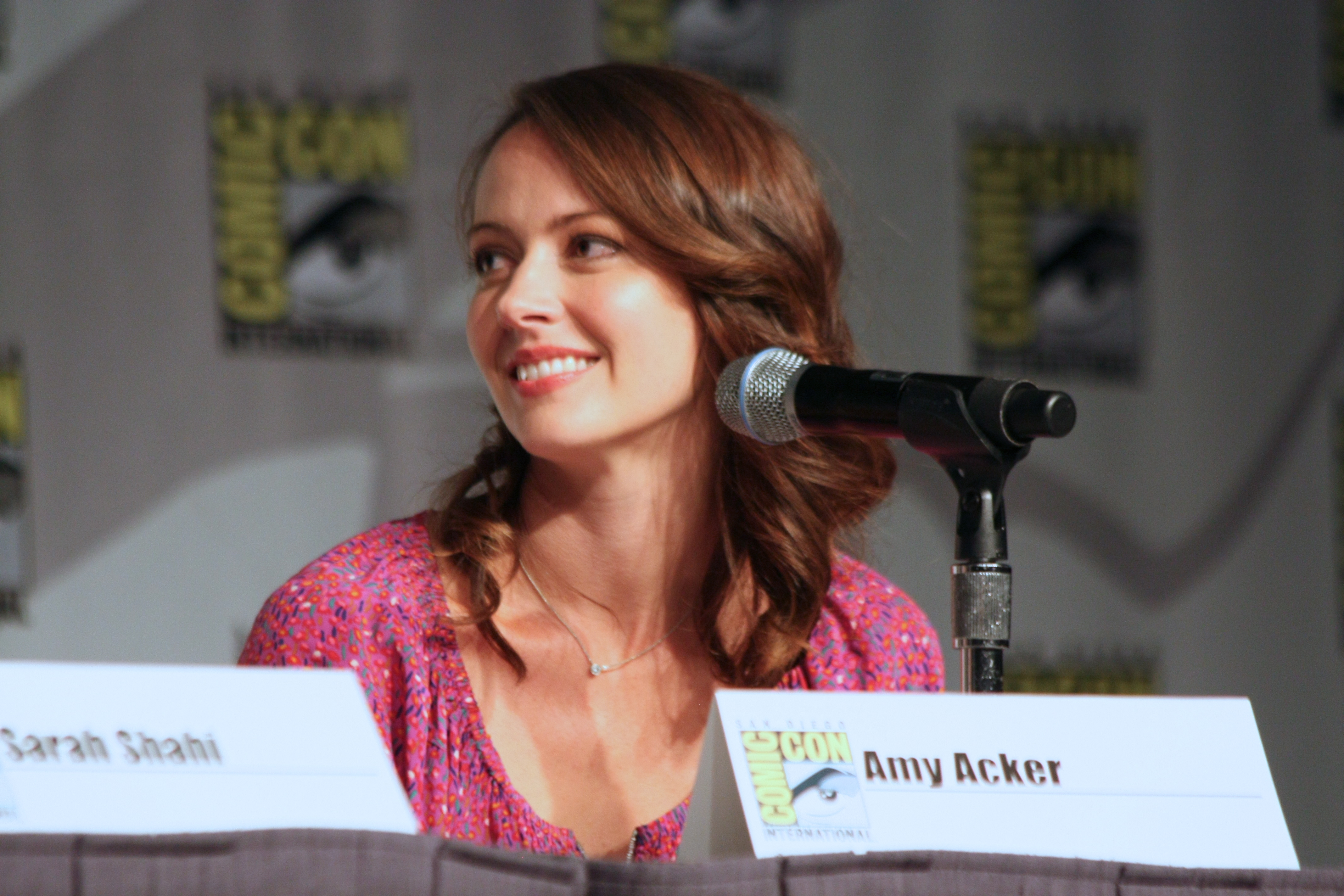 Amy Acker (Root) Person of Interest Panel at the 2014 San Diego Comic Con